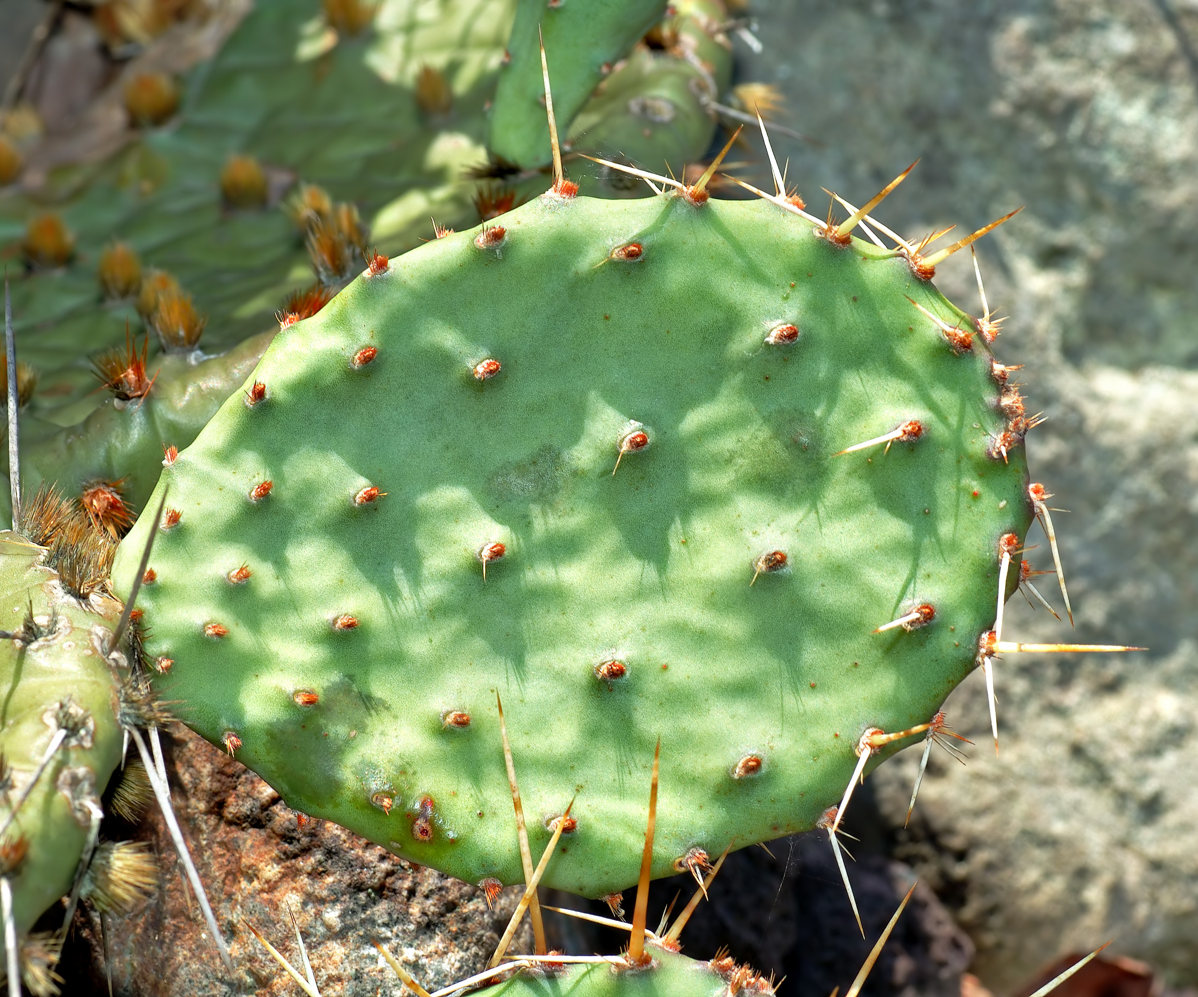 This image shows a Prickly Pear cactus (Opuntia humifusa).